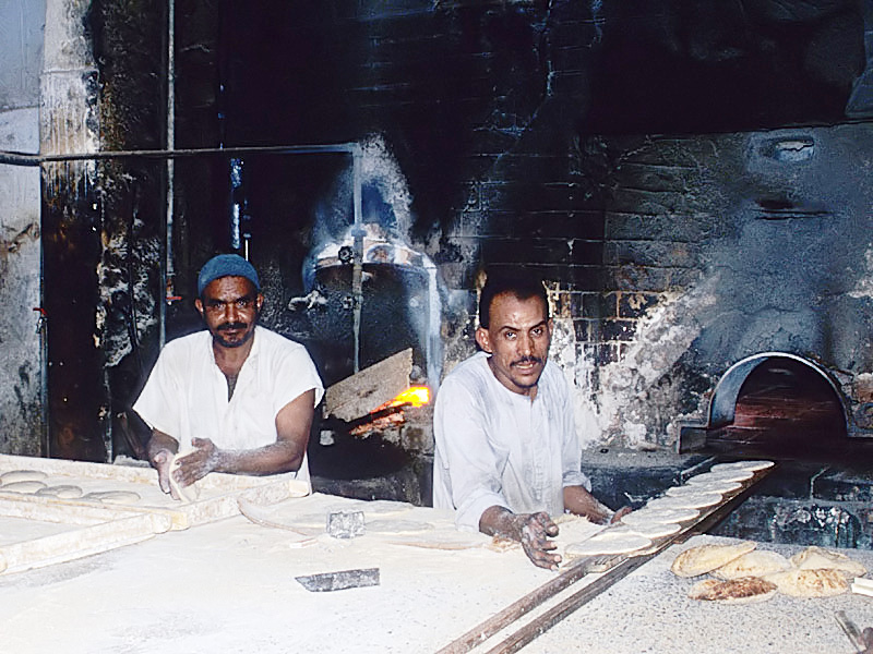 Bakery at Aswan